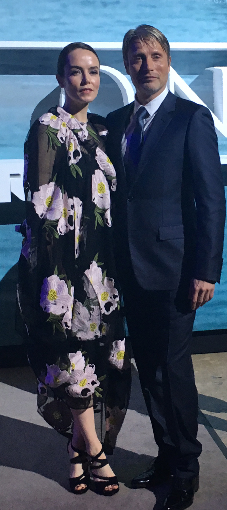 Valene Kane and Mads Mikkelsen at Rogue One premiere, Tate Modern, London